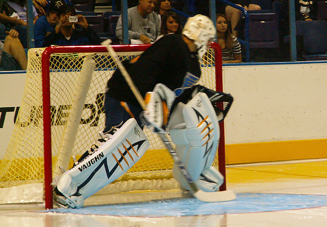 Ben Bishop at the 2008 Blues FanFest.